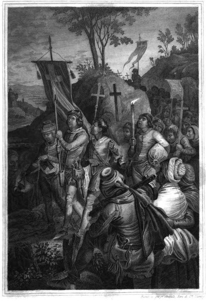 The Childrens Crusade 1212